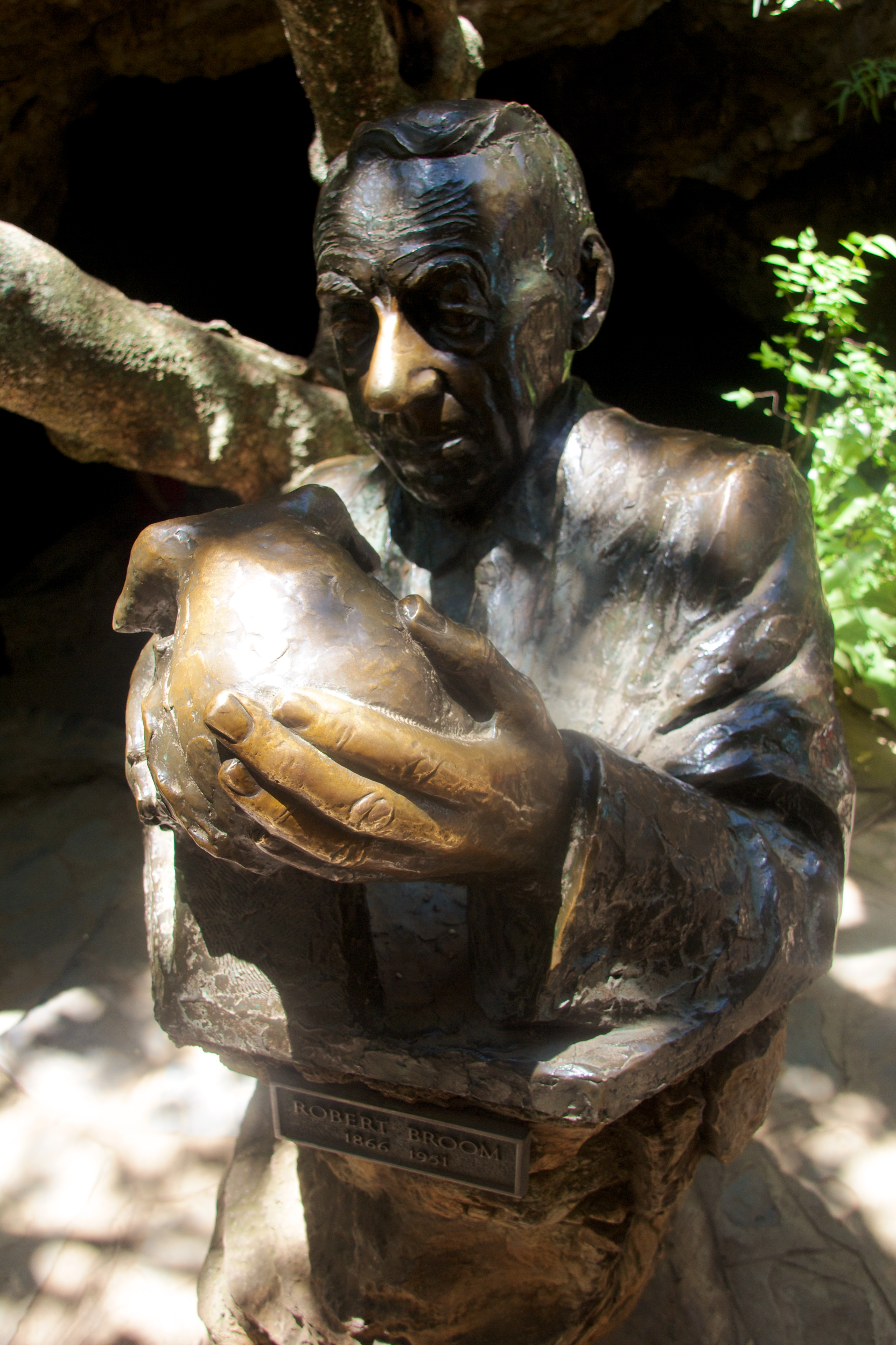 Robert Broom & Mrs. Ples statue in the Sterkfontein caves.